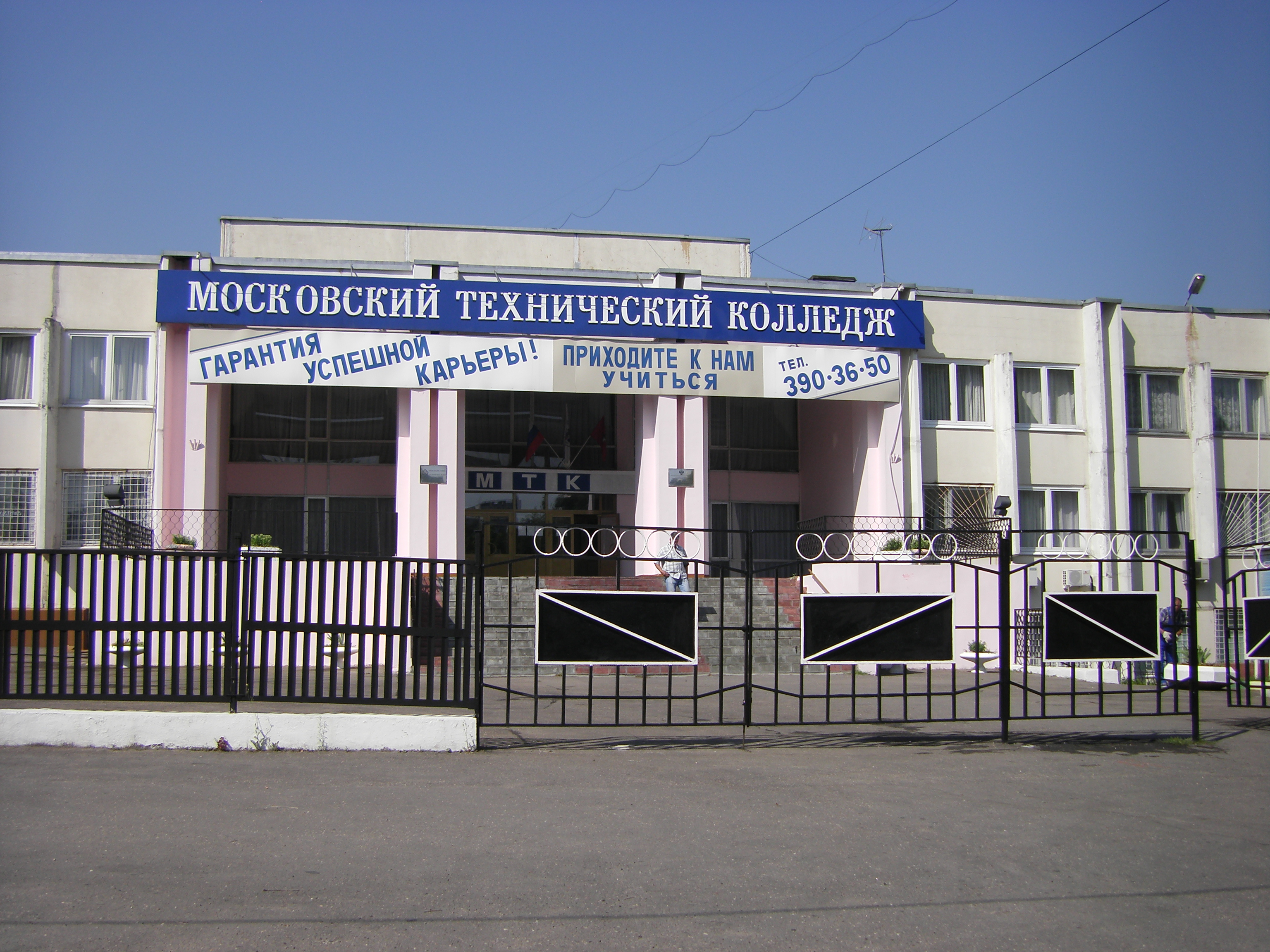 Moscow technical college, Generala Belova Street.